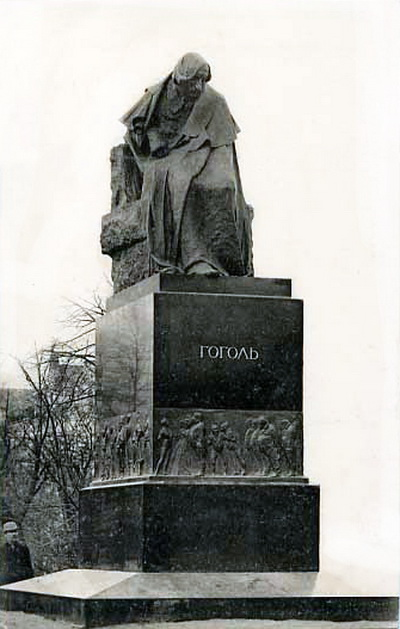 Monument to Nikolay Gogol (sculptor N.A.Andreev, 1909).